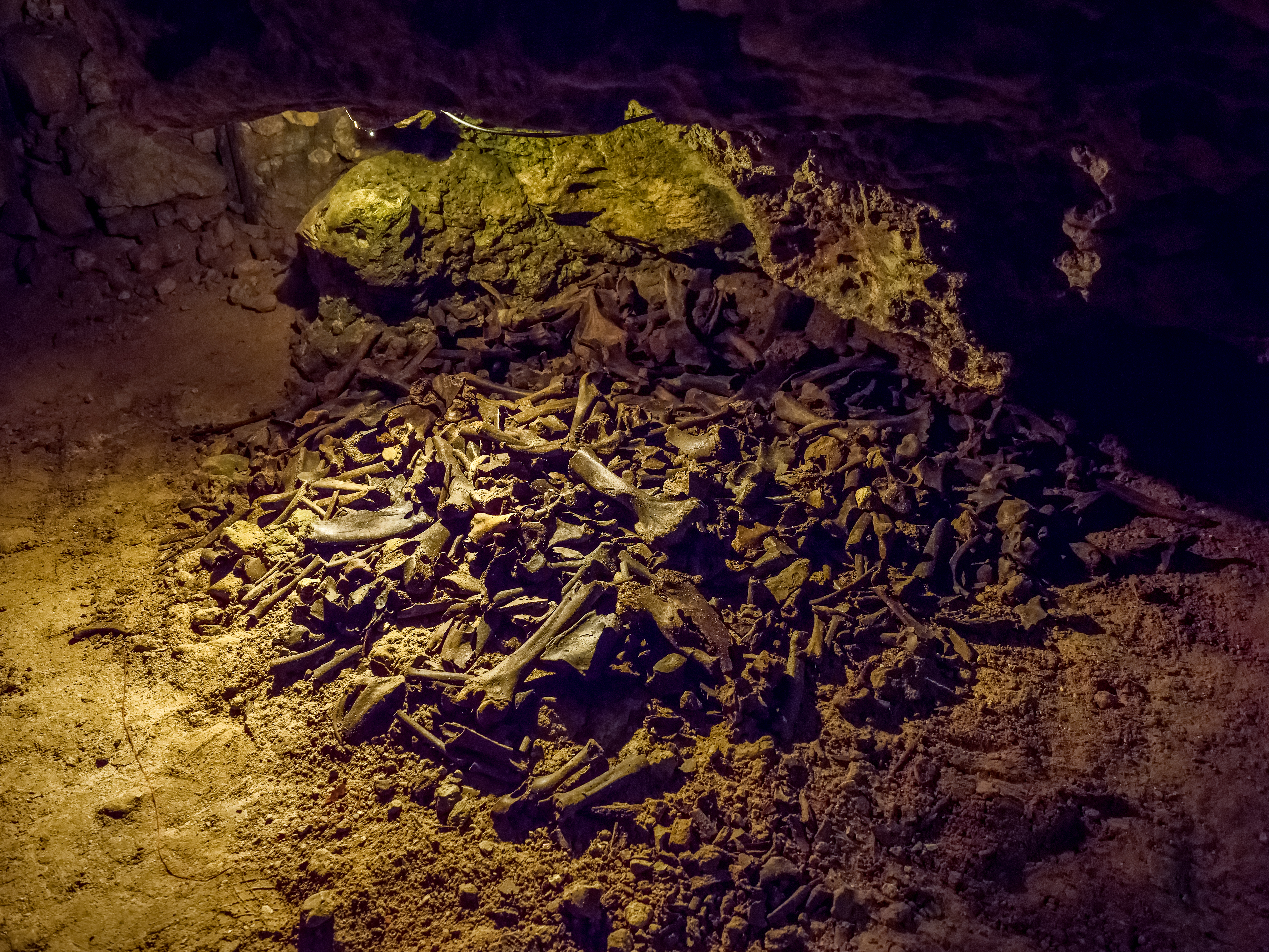 Bones of several cave bears (Ursus spelaeus) in the Devil's Cave in Pottenstein